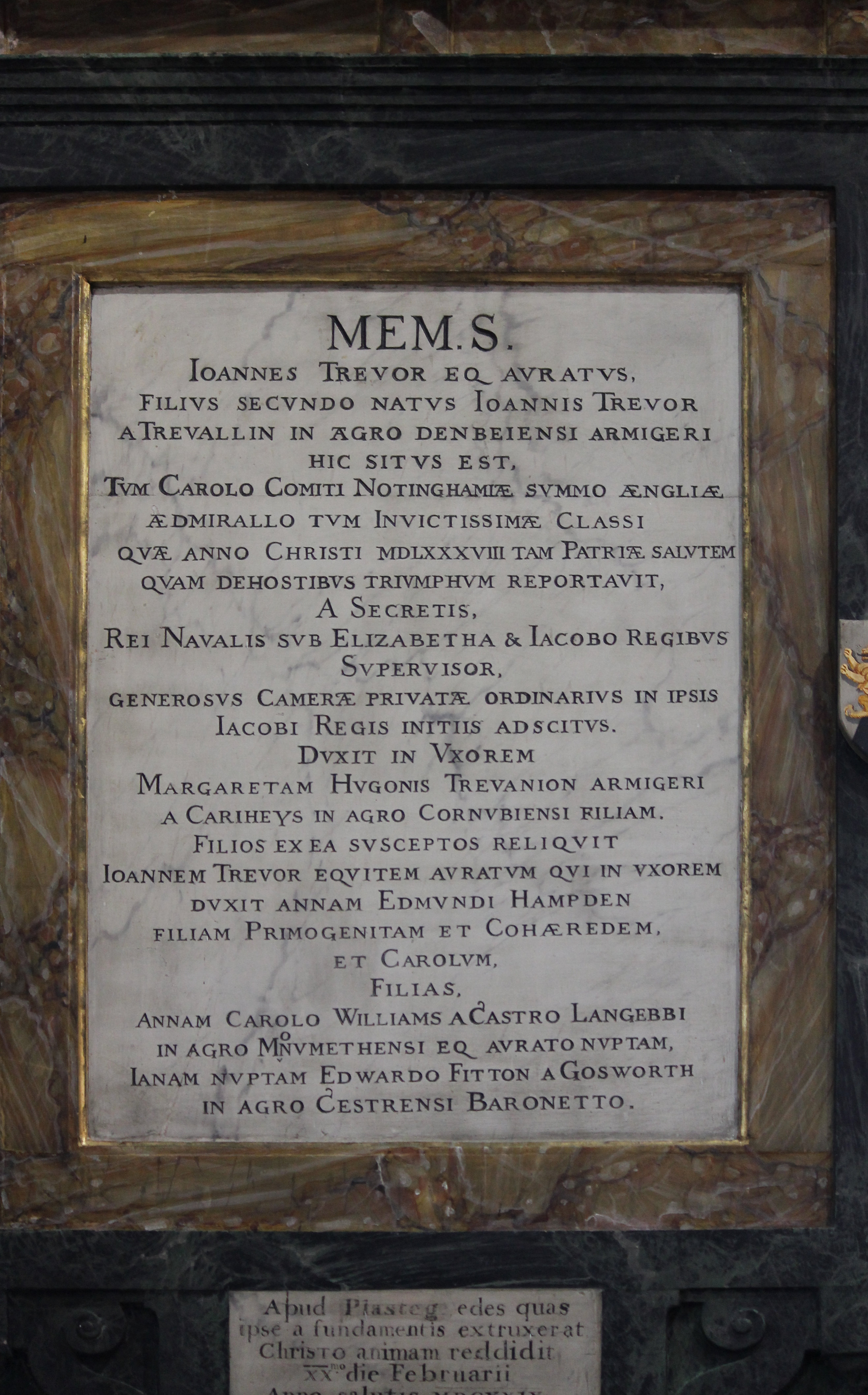 Translation of text: Here lies John Trevor, a gilded knight, second born son of John Trevor who bore arms from Trevalyn in Denbighshire. Secretary to both Charles, Earl of Nottingham, High Admiral of England, and the invincible fleet, which in the year of Christ 1588 delivered as much salvation to the country as victory over the foe, overseer of naval affairs under the monarchs Elizabeth and James, he was admitted as a noble member[? - not sure precisely what "ordinarius" denotes] of the privy chamber at the commencement of the reign of King James. He took as wife Margaret, daughter of Hugh Trevanion who bore arms from Caerhayes in Cornwall. Sons given by her he left John Trevor, gilded knight, who took as wife Anna, first born daughter and co-heir of Edmund Hampden, and Charles; daughters Anna, who married Charles Williams, a gilded knight, of Llangybi), and Jana who married Edward Fitton, Baronet of Gosworth in Cheshire.